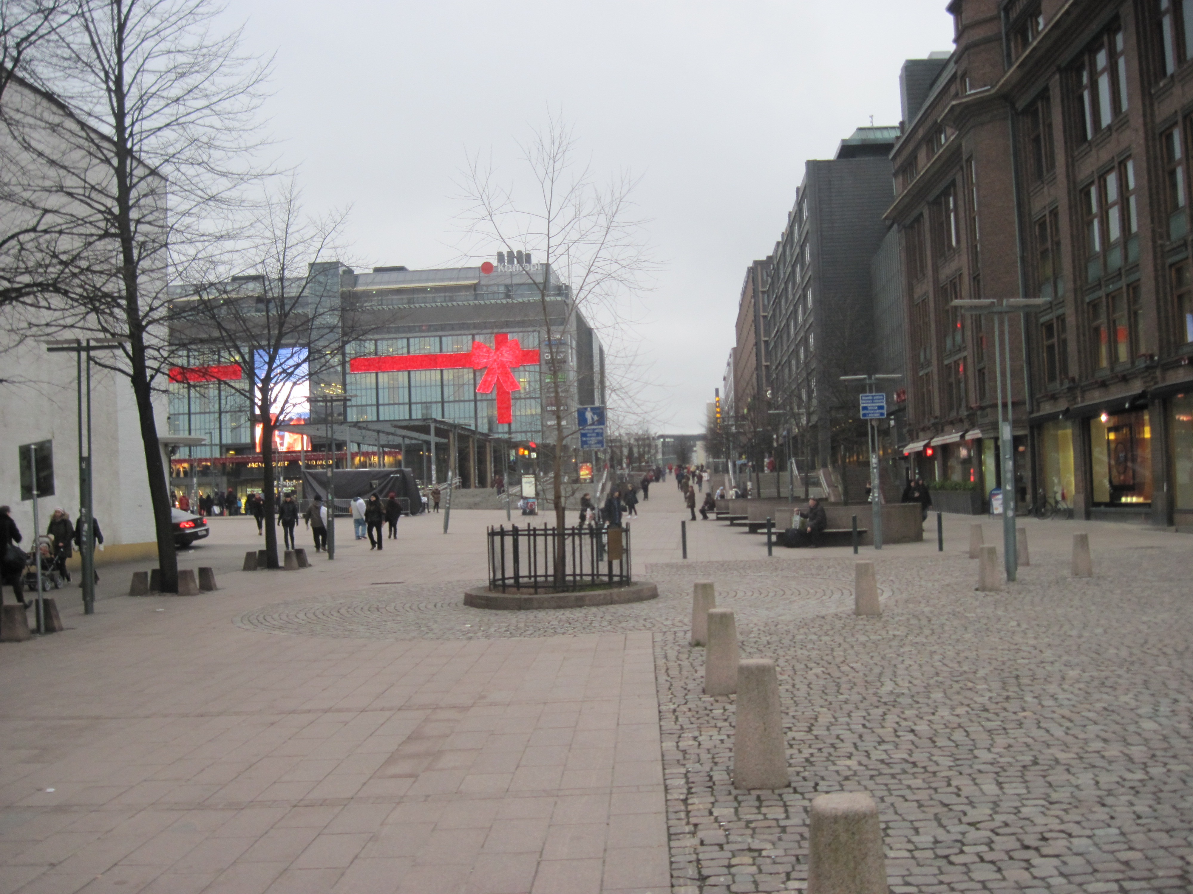 Eastern part of Salomonkatu, Helsinki